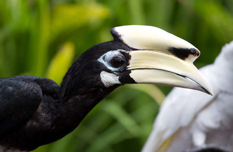 An Oriental Pied Hornbill at Kuala Lumpur Bird Park, Malaysia.